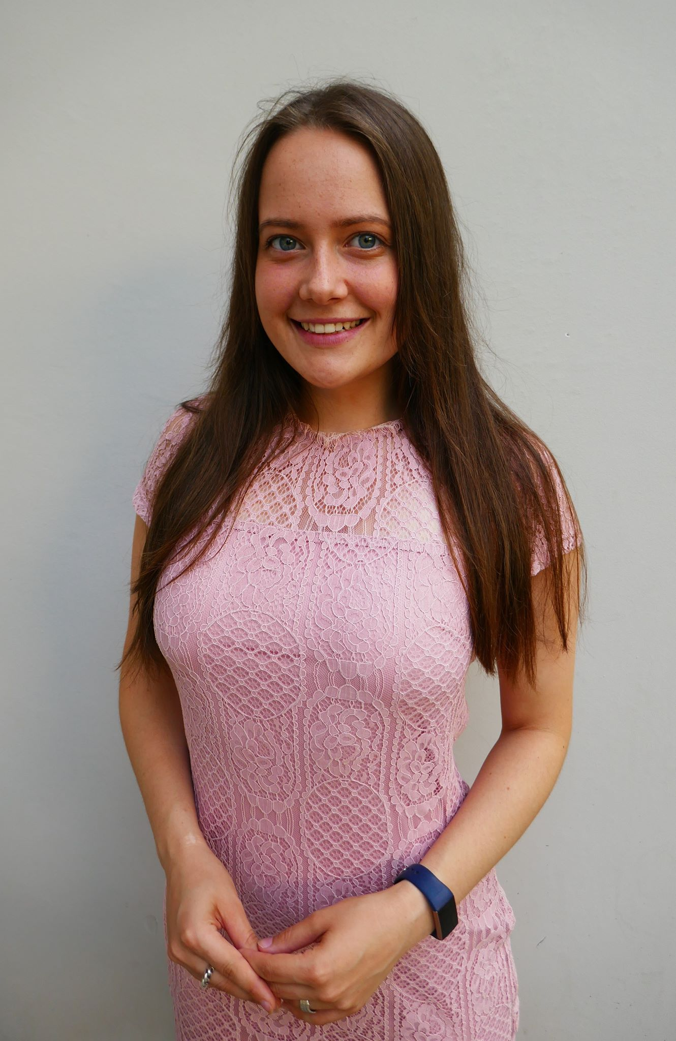 Laima Kamzola is one from best women table hockey players at world. She won silver medal in individual World Championship - 2019 in Raubichi (BY) and bronze - with the national team.